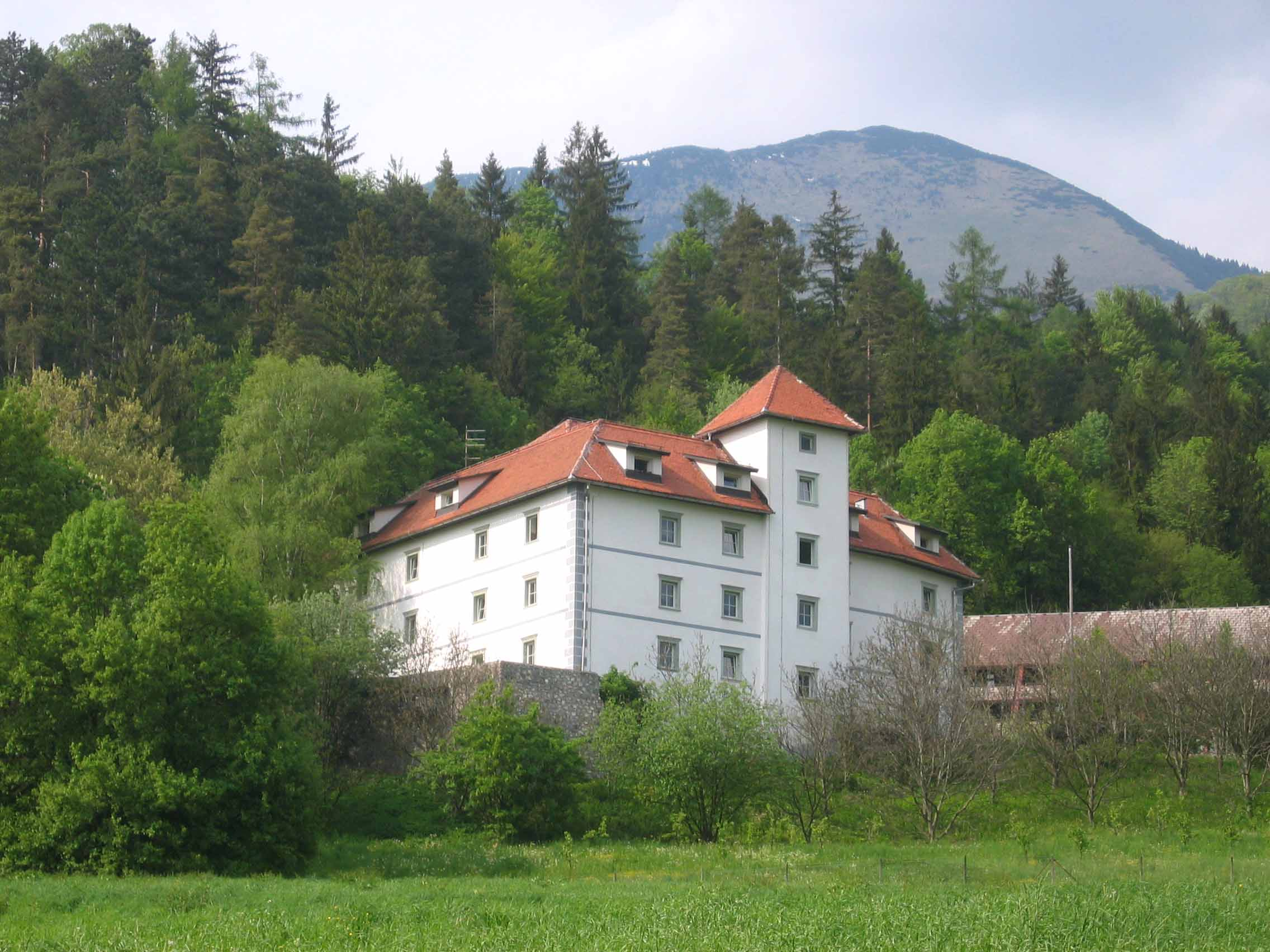 Turn Castle near Preddvor, Slovenia photo:Ziga 08:53, 8 April 2007 (UTC)